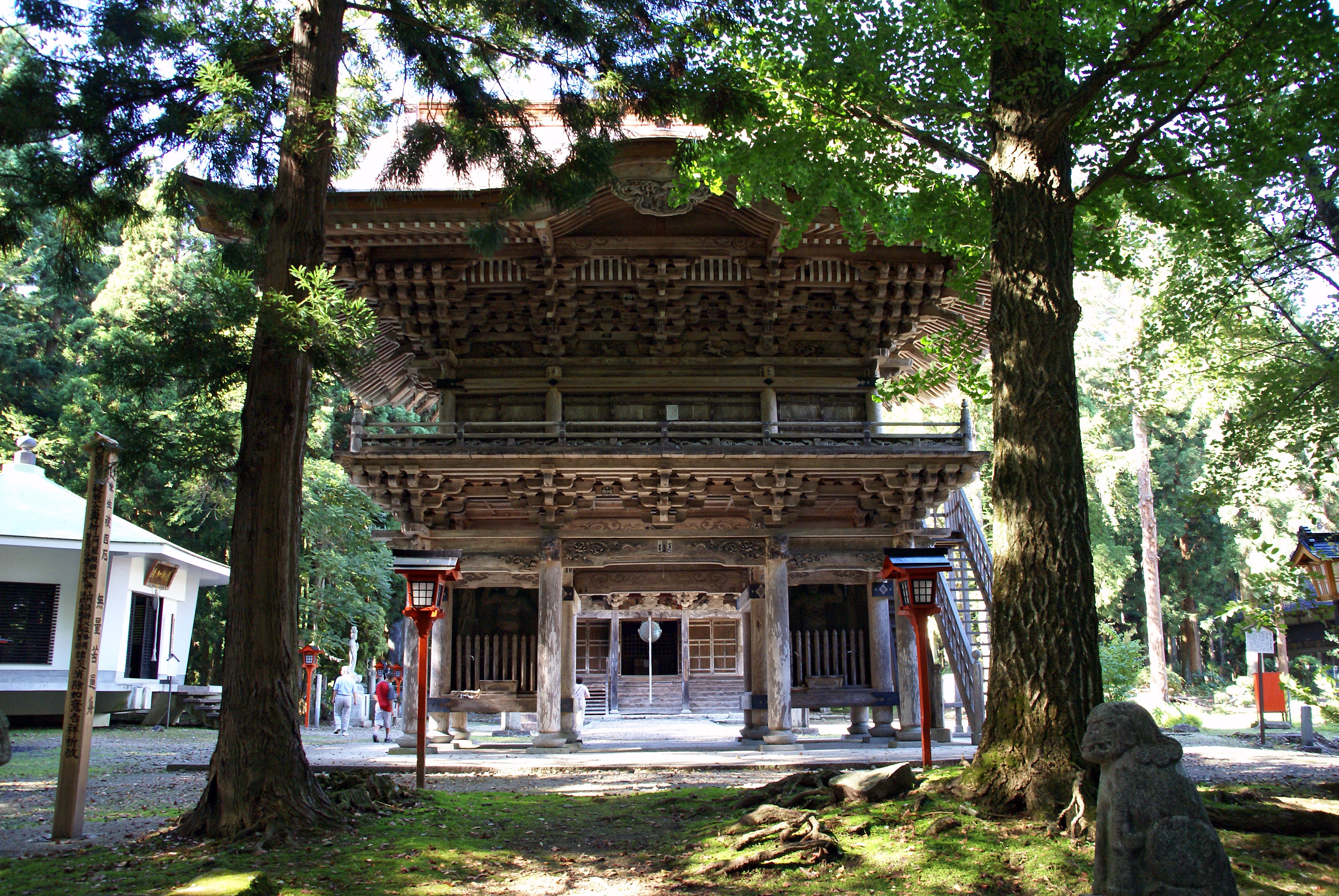 Kiyomizudera in Hanamaki, Iwate prefecture, Japan